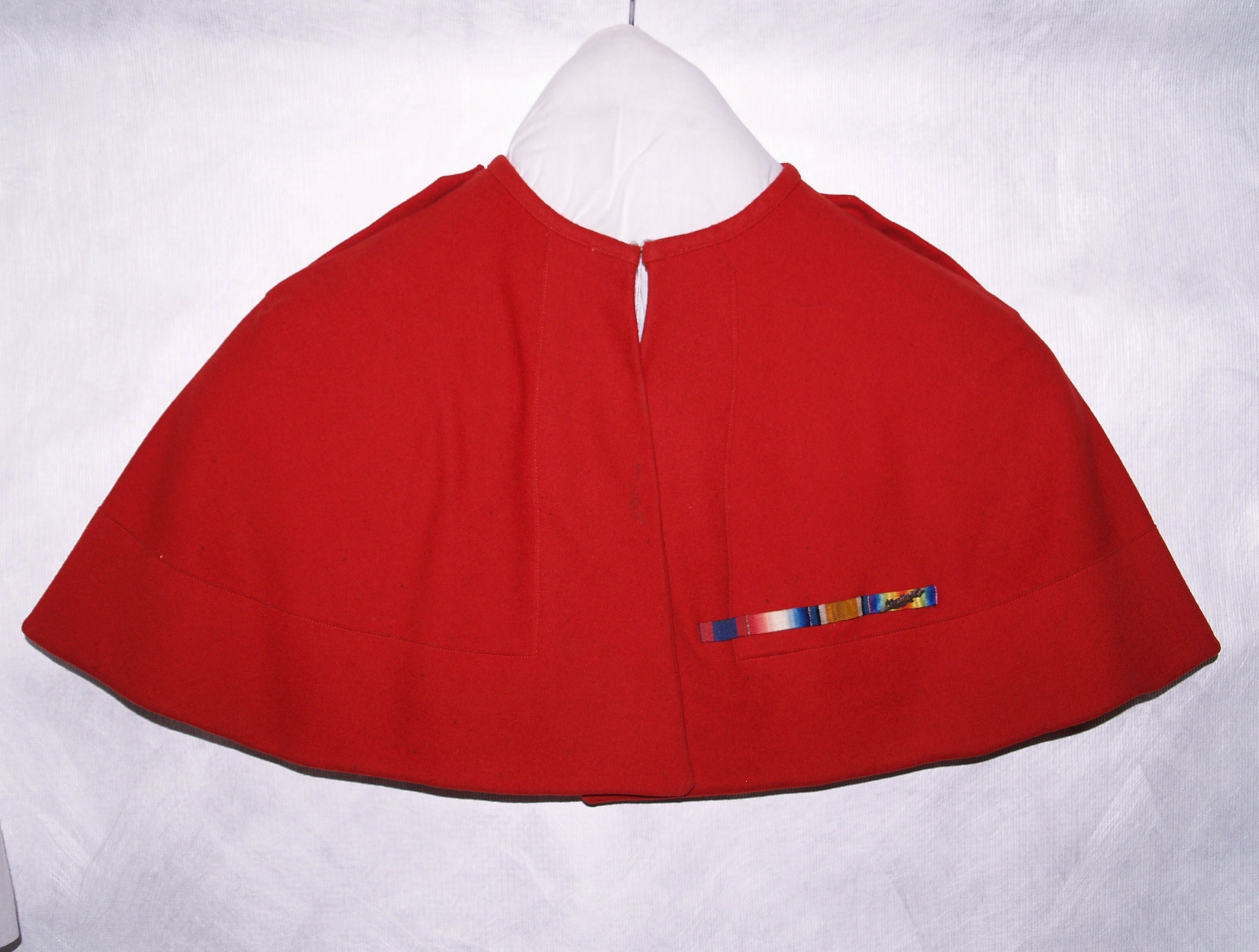 Australian Army Nursing Service nursing cape, WW1 Belonged to 22-52 Staff Nurse Ellen (Helen) Bennett Brown ARRC red nursing cape with service ribbons - ARRC, 14-15 Star, BWM, Victory and oak leaf m-i-d emblem; shoulder straps with red cloth-covered button and two metal pips (rank badges) on each